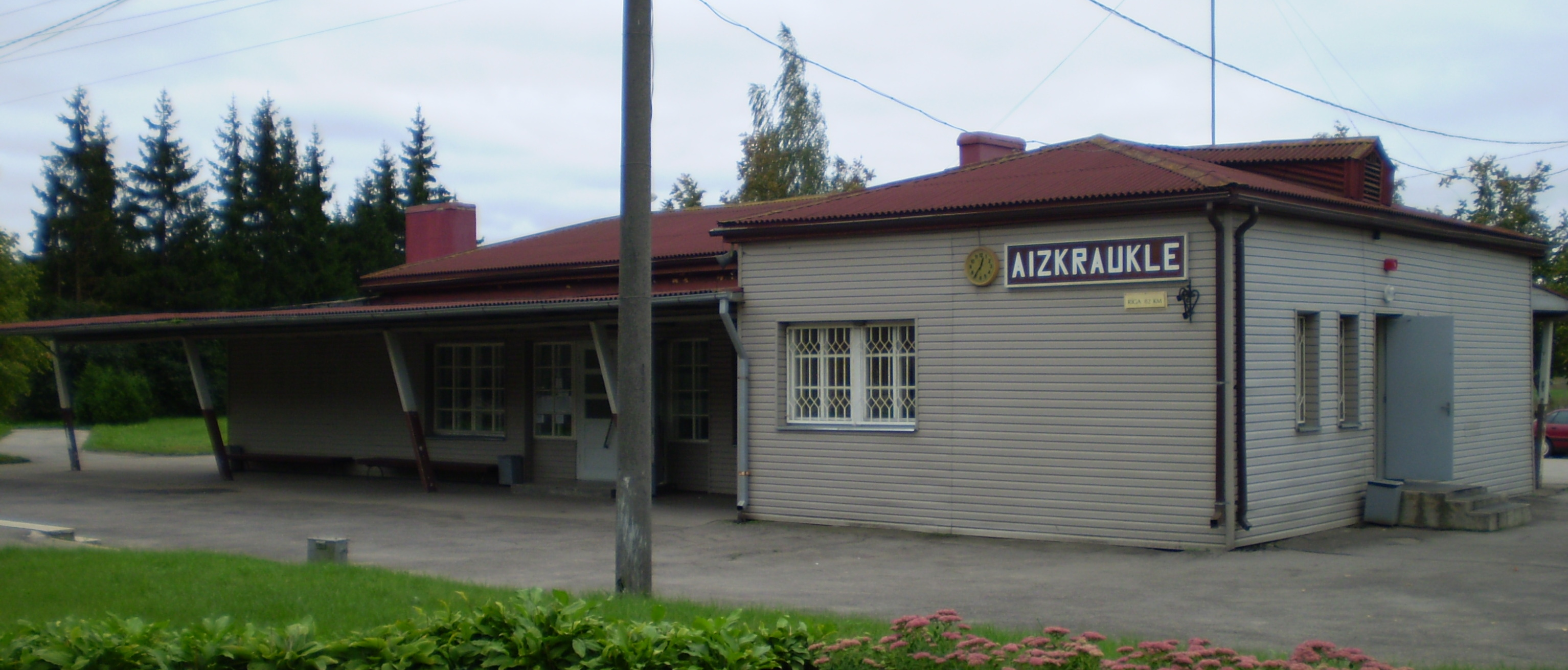 Aizkraukle railway station (located in Aizkraukle parish), Latvia